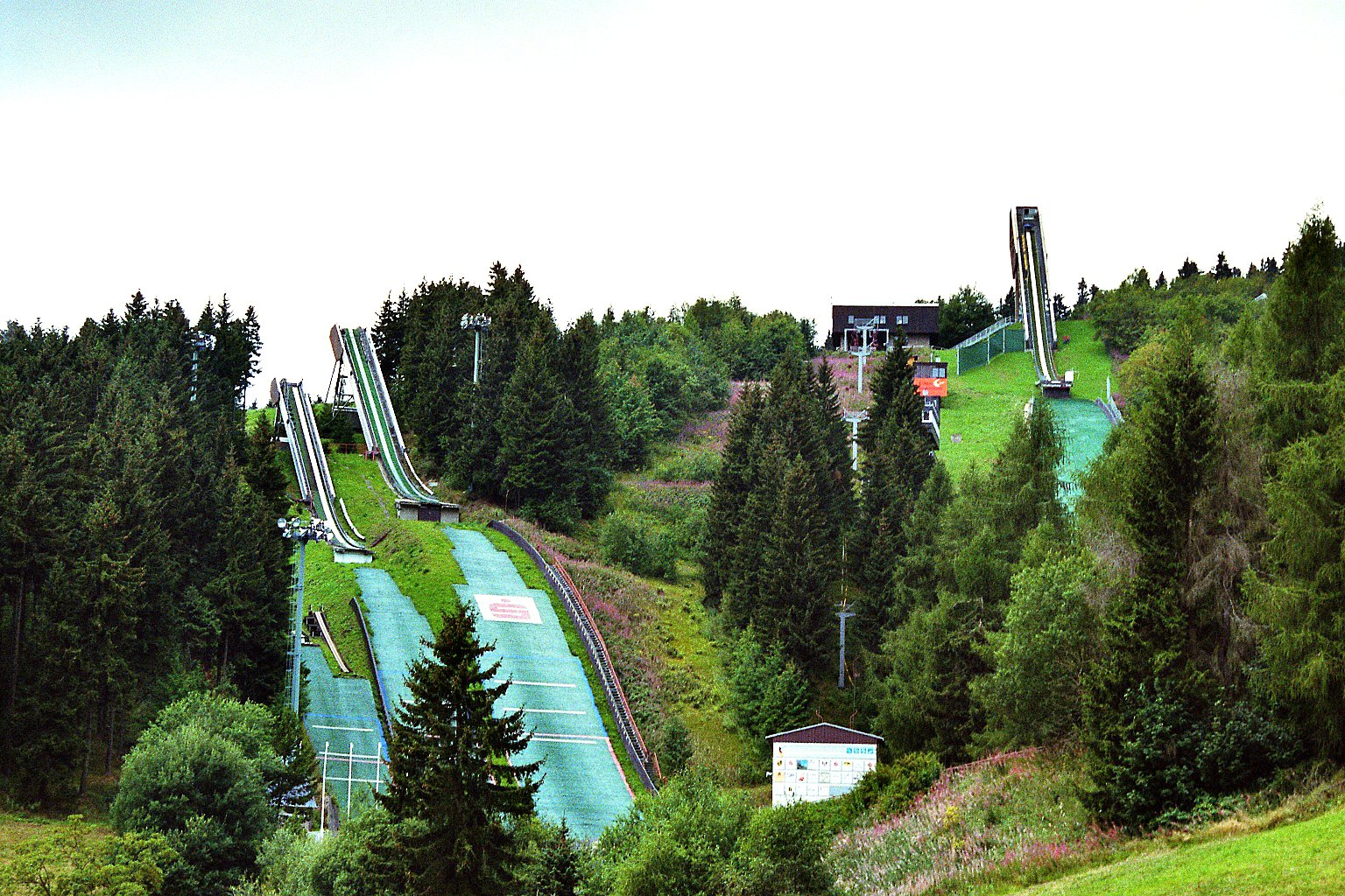 Areal of winter sports